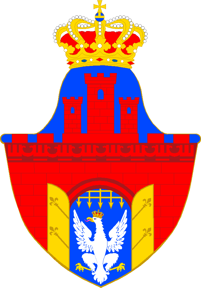 Coat of arms of the Free City of Cracow, 1815-1846/Herb Wolnego Miasta Krakowa 1815-1846